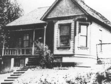 Old image of the home on Bonnie Brae Street. Published in 1907, and now in the public domain. Obtained from